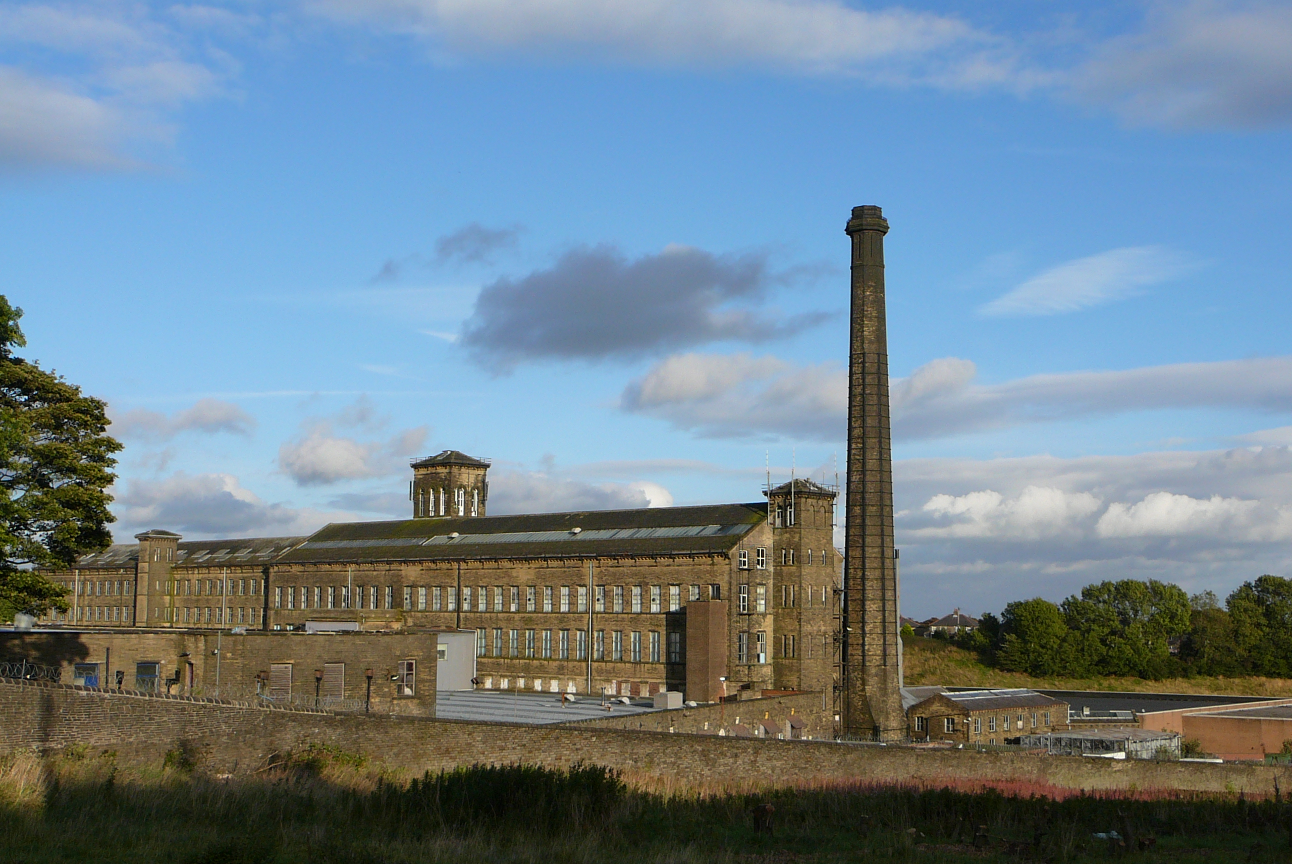 Black Dyke Mills in Queensbury, West Yorkshire. Taken on Friday the 14th of September 2007.